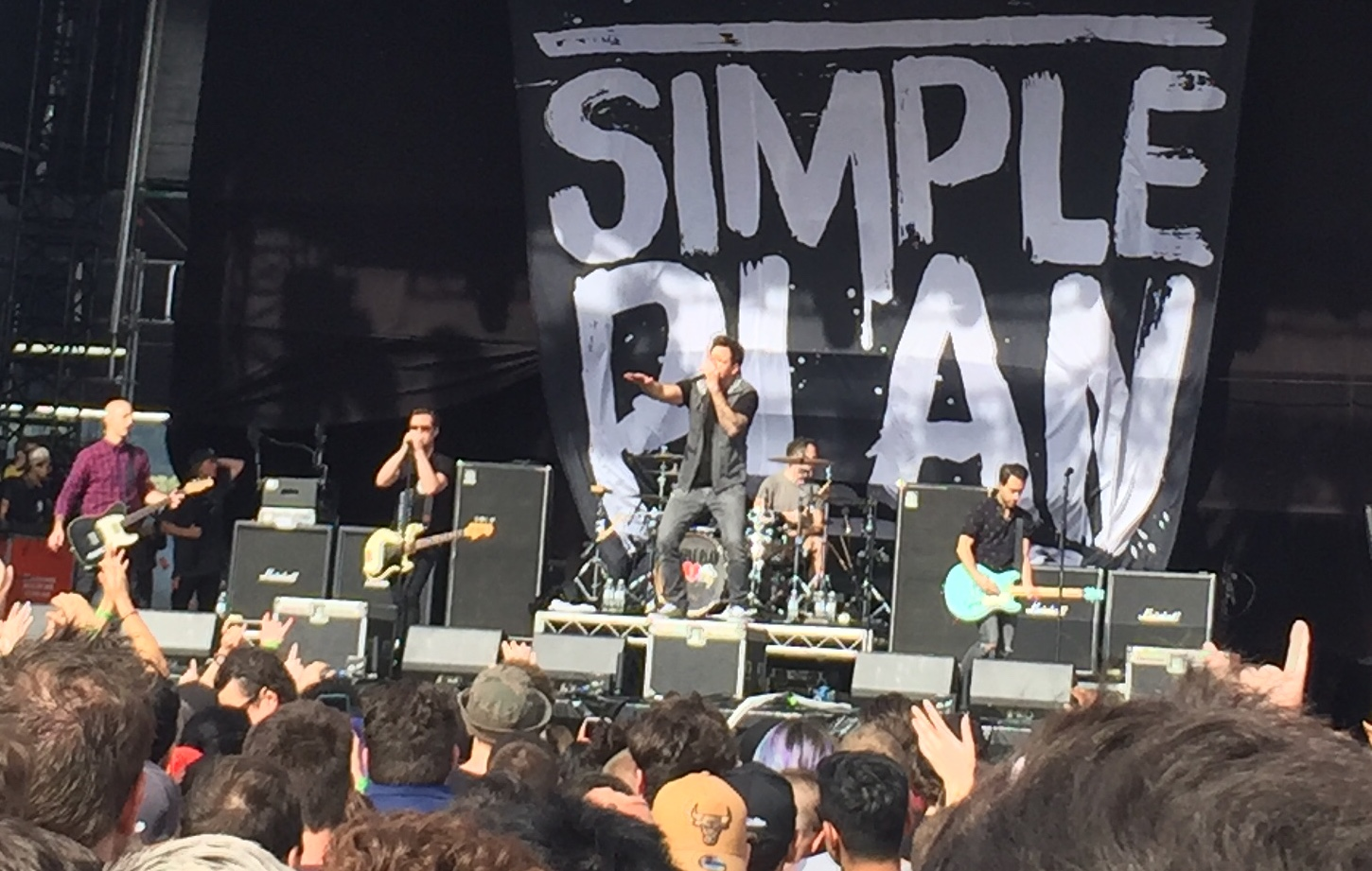 Canadian punk-rock band Simple Plan live at Good Things Festival in Melbourne, Australia (December 6, 2019)